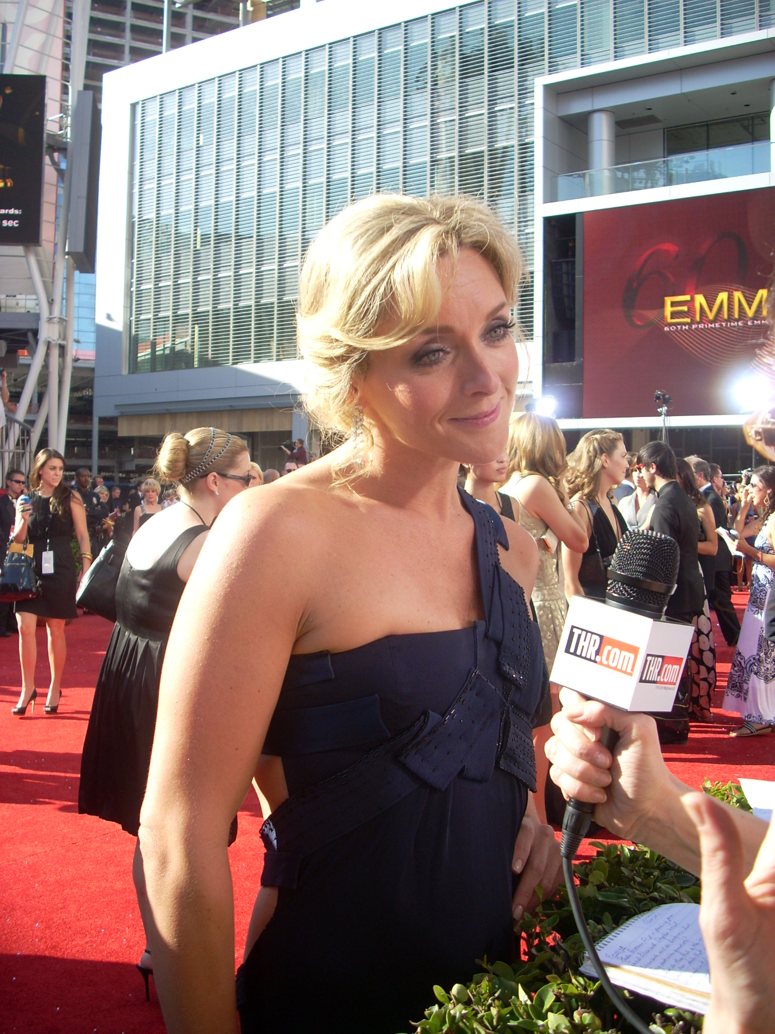 Jane Krakowski on the red carpet at the 60th Annual Emmy Awards, Nokia Theater, Sept. 21, 2008